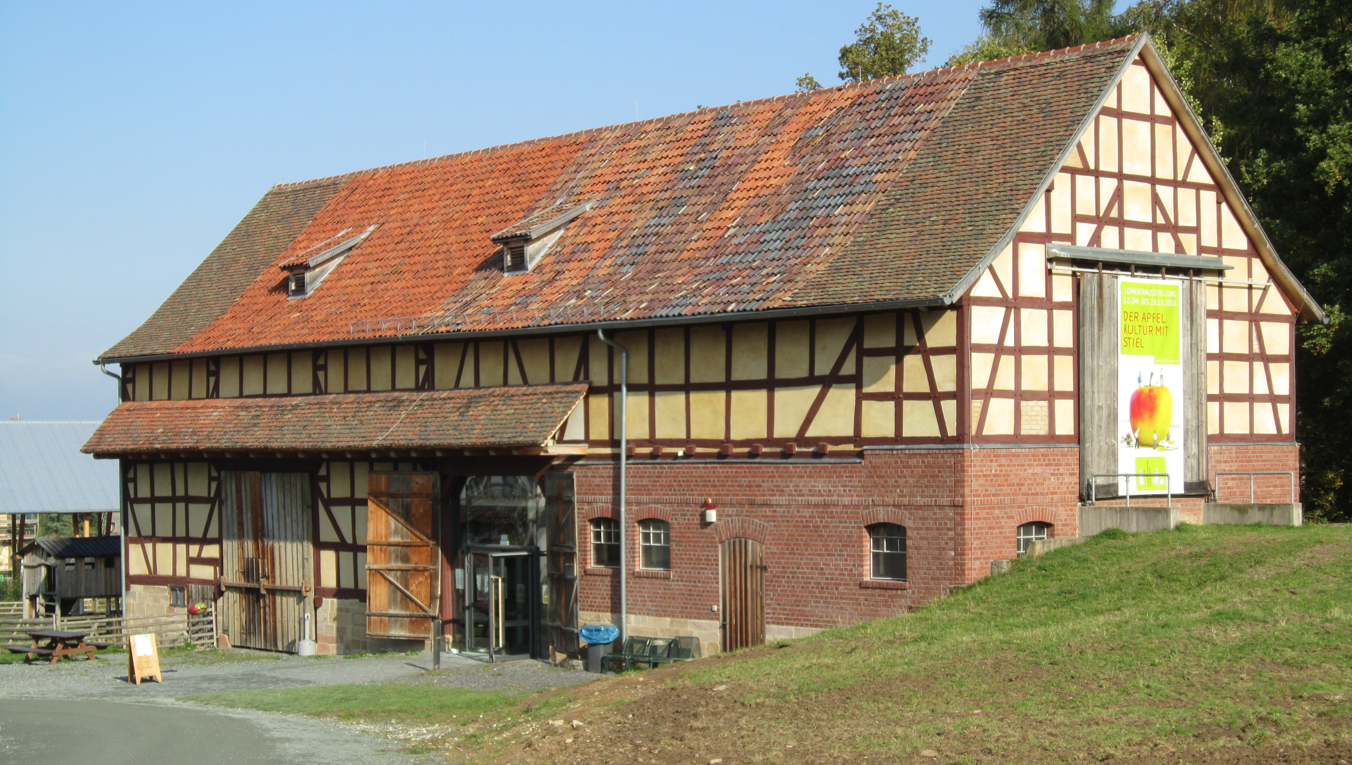 Exhibition "The apple - culture with a handle" in the reconstructed stable barn from Asterode (North Hesse) in the "Hessenpark" (open air museum)